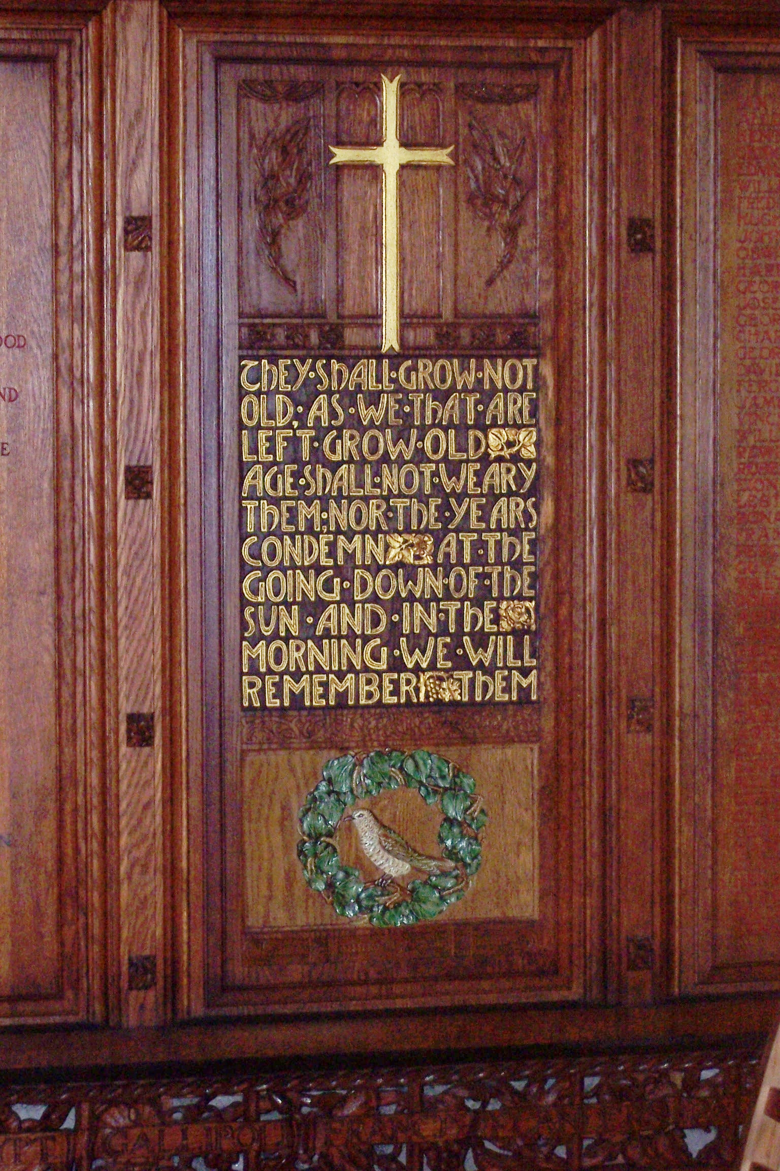 Memorial plaque in Christ Church Cathedral, Christchurch, NZ with ode of Remembrance